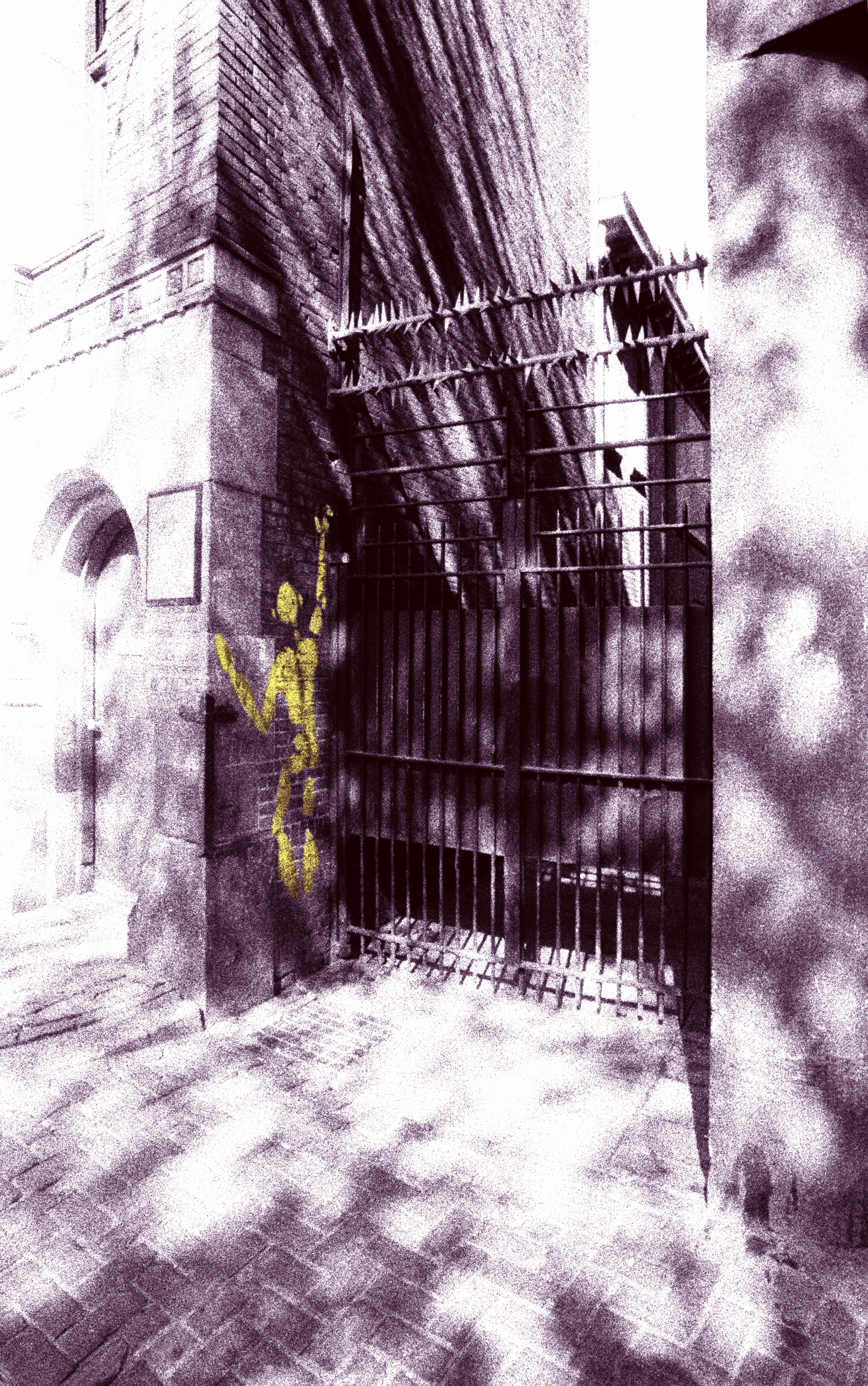 Banksy unconfirmed, Amsterdam, Red Ligth District, Graffiti 1996, Film recording 1000 asa, silver print copy with selenium, hand retouched with pigments...